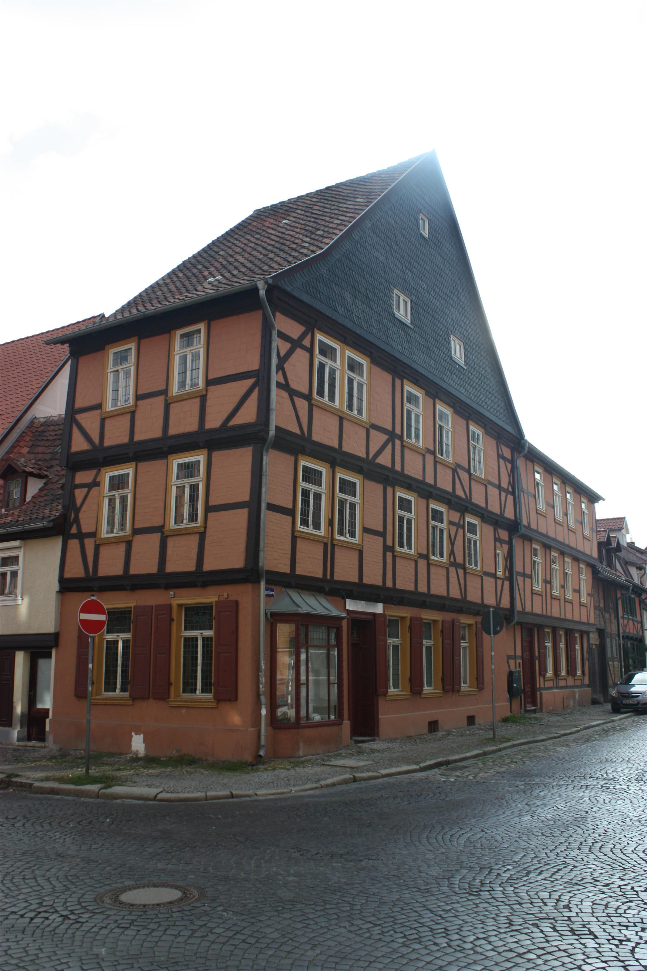 This is a photograph of an architectural monument.It is on the list of cultural monuments of Quedlinburg Augustinern 76 in Quedlinburg